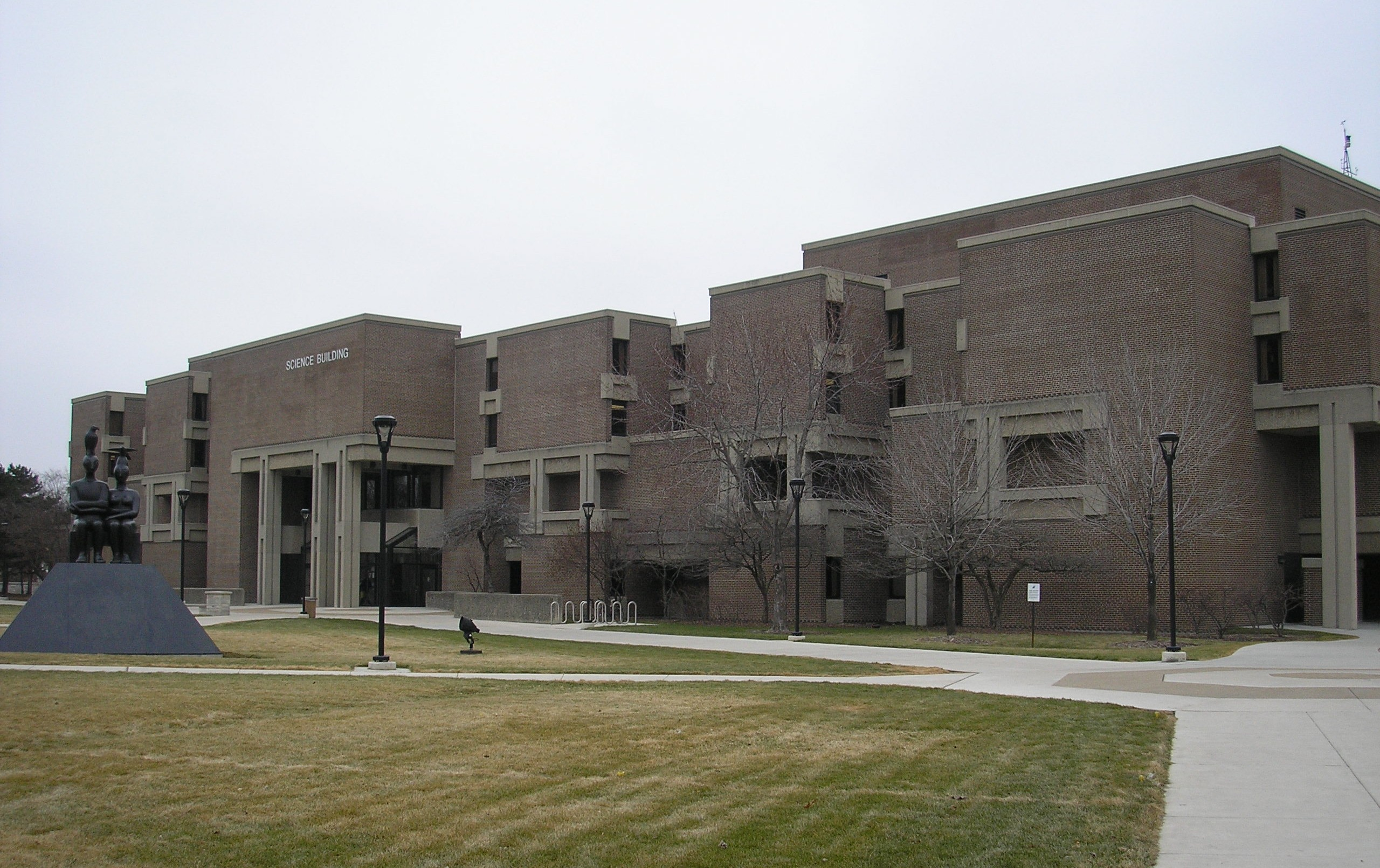 Building of Lost Souls